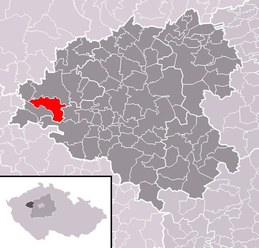 Location of Drahouš municipality within Rakovník District and (identical) administrative area of Rakovník as a Municipality with Extended Competence.